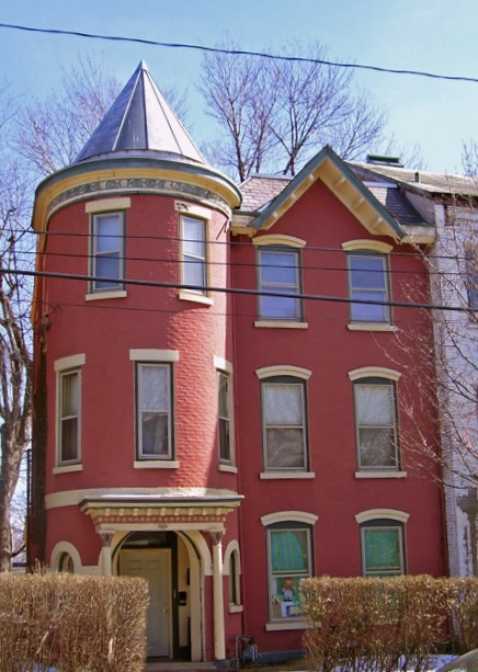 Photographed by Daniel Case 2006-03-06 Category:Images of New York